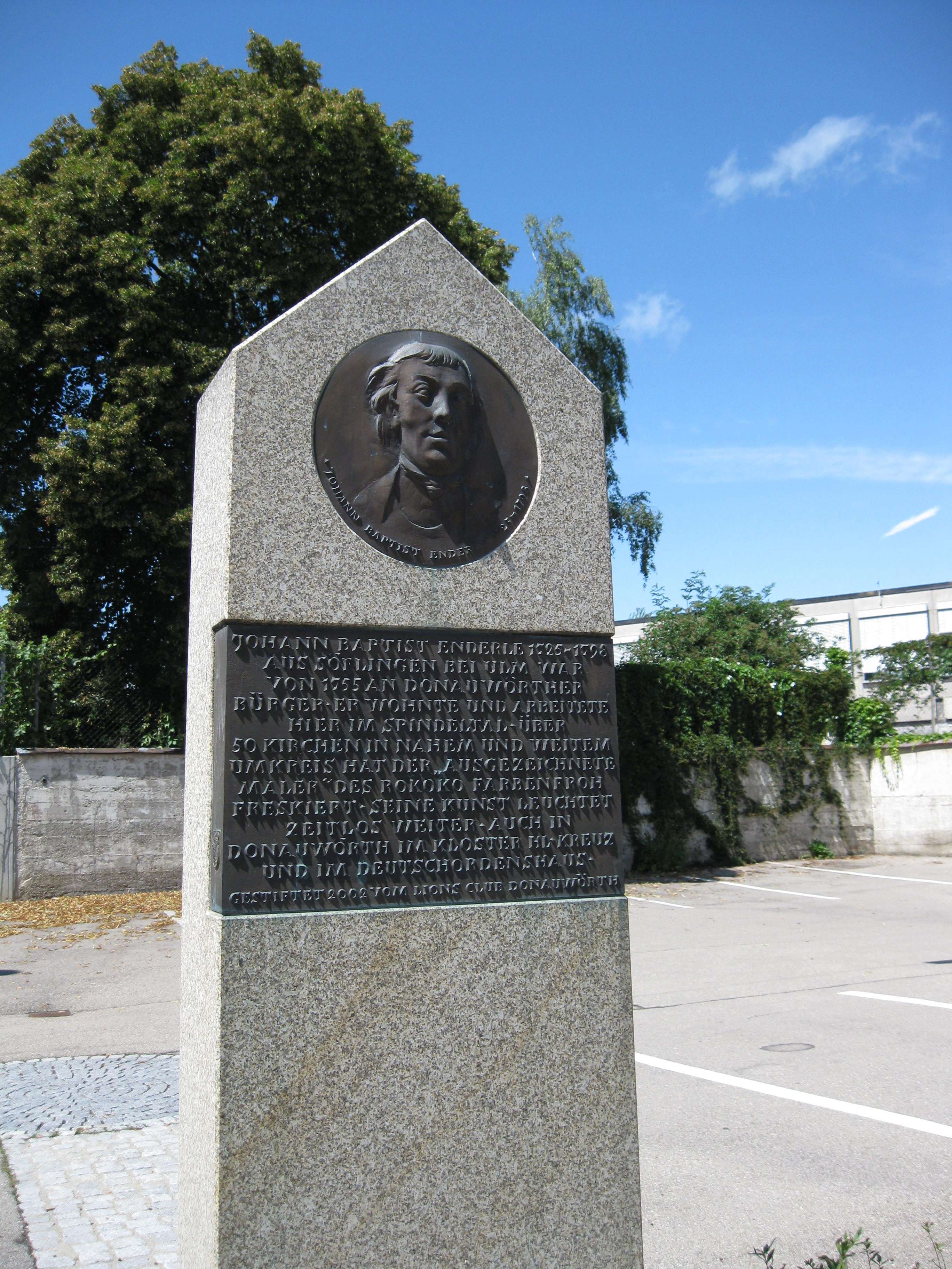 Memorial for Johann Baptist Enderle in Donauwörth, a baroque painter